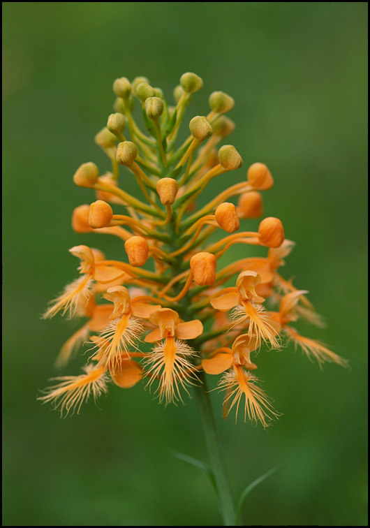 Inflorescence of Platanthera ciliaris, the Yellow Fringed-orchid.